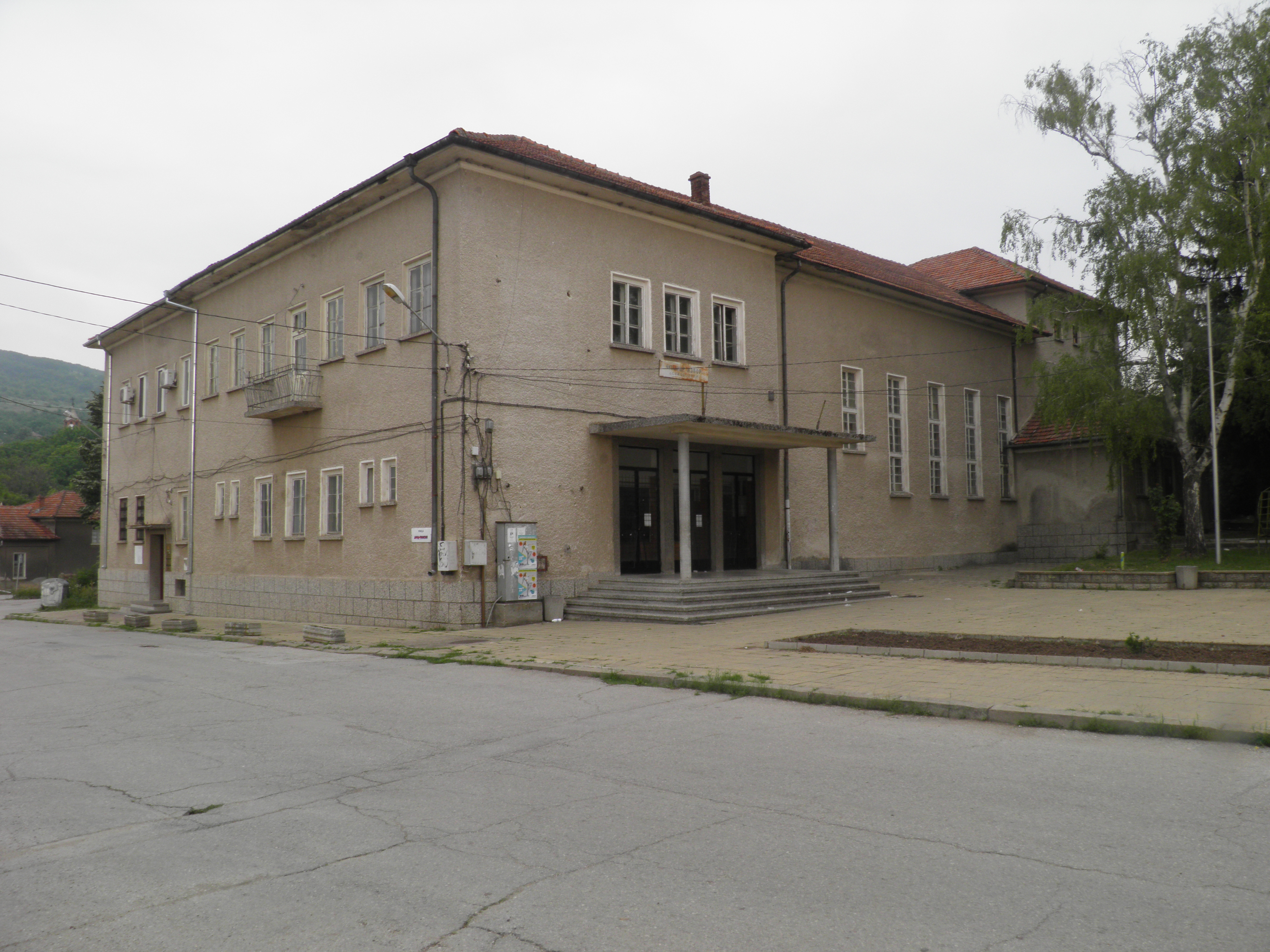 Townhall Samovodene,Bulgaria